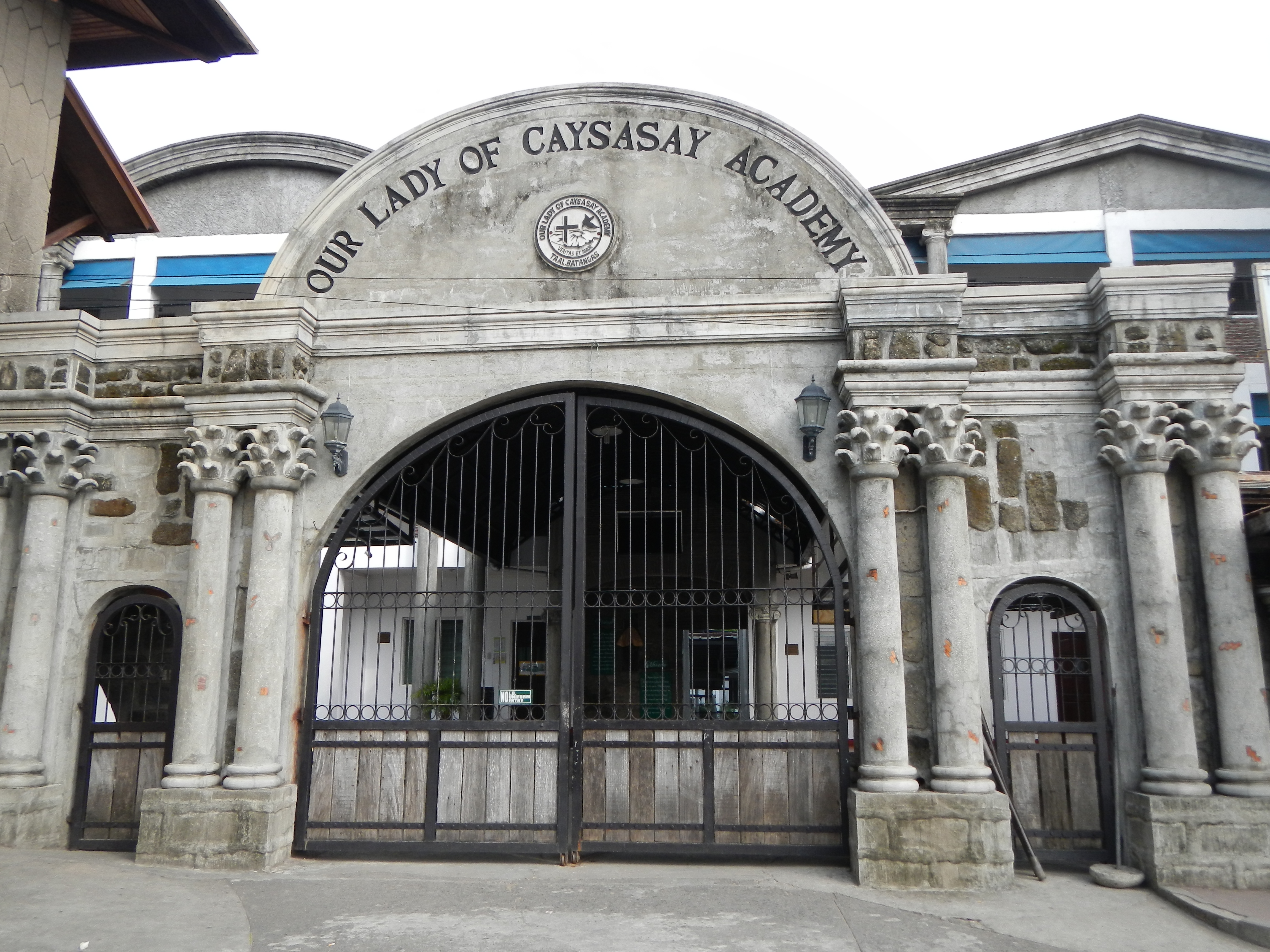 Our Lady of Caysasay Academy[1] (OLCA) is a Roman Catholic educational institution located in Taal, Batangas, Philippines. Taal, Batangas[2]Taal is a second class municipality in the province of Batangas, Philippines. According to the latest census, it has a population of 51,459 people in 8,451 households. ---- Heritage Town – 1572 Casa Real - Municipal Government of Taal, Escuela Pia - Taal Cultural Center, Taal Town Plaza & Basketball Court and the 1923 Rizal College of Taal/beside/adjacent - in front of the --- Basilica de San Martin de Tours (Taal)[3]Basilica de San Martin de Tours is a Minor Basilica in the town of Taal, Batangas in the Philippines, within the Archdiocese of Lipa. It is considered to be the largest church in the Philippines and in Asia, standing 96 metres (315 ft) long and 45 metres (148 ft) wide. St. Martin of Tours is the patron saint of Taal, whose fiesta is celebrated every November 11. It is under Metropolitan Archbishop Ramon Cabrera Argüelles of Lipa City, Batangas[4] It belongs to the [5]Roman Catholic Archdiocese of Lipa - Vicariate II: Vicariate of Saint John Mary Vianney. Taal, Batangas[6]Taal is a second class municipality in the province of Batangas, Philippines. According to the latest census, it has a population of 51,459 people in 8,451 households.